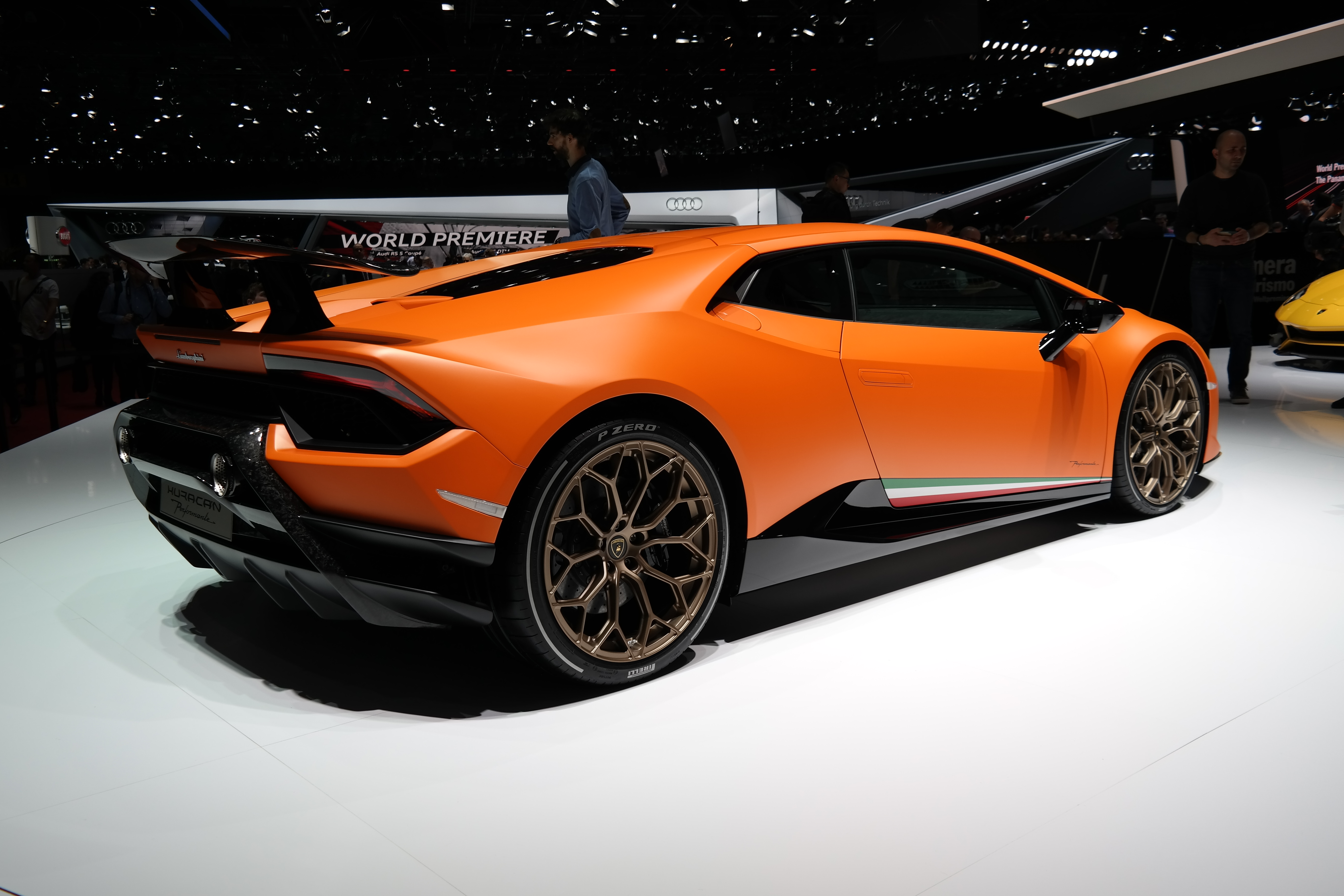 Geneva Motor Show 2017 (photo taken on the first press day)